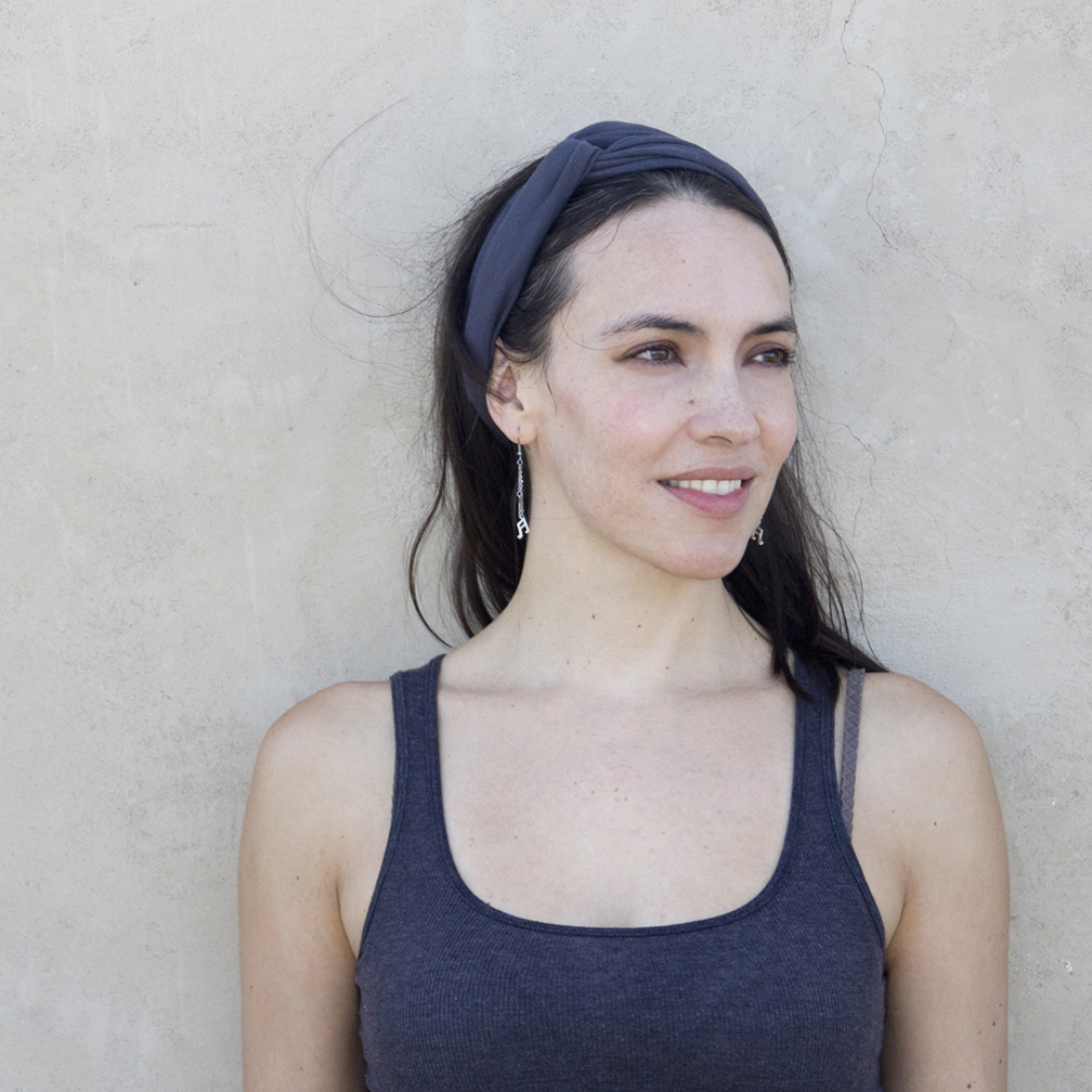 Actress, Yadira Pascault Orozco, in Los Angeles, California. Photo: Ithaka Darin Pappas